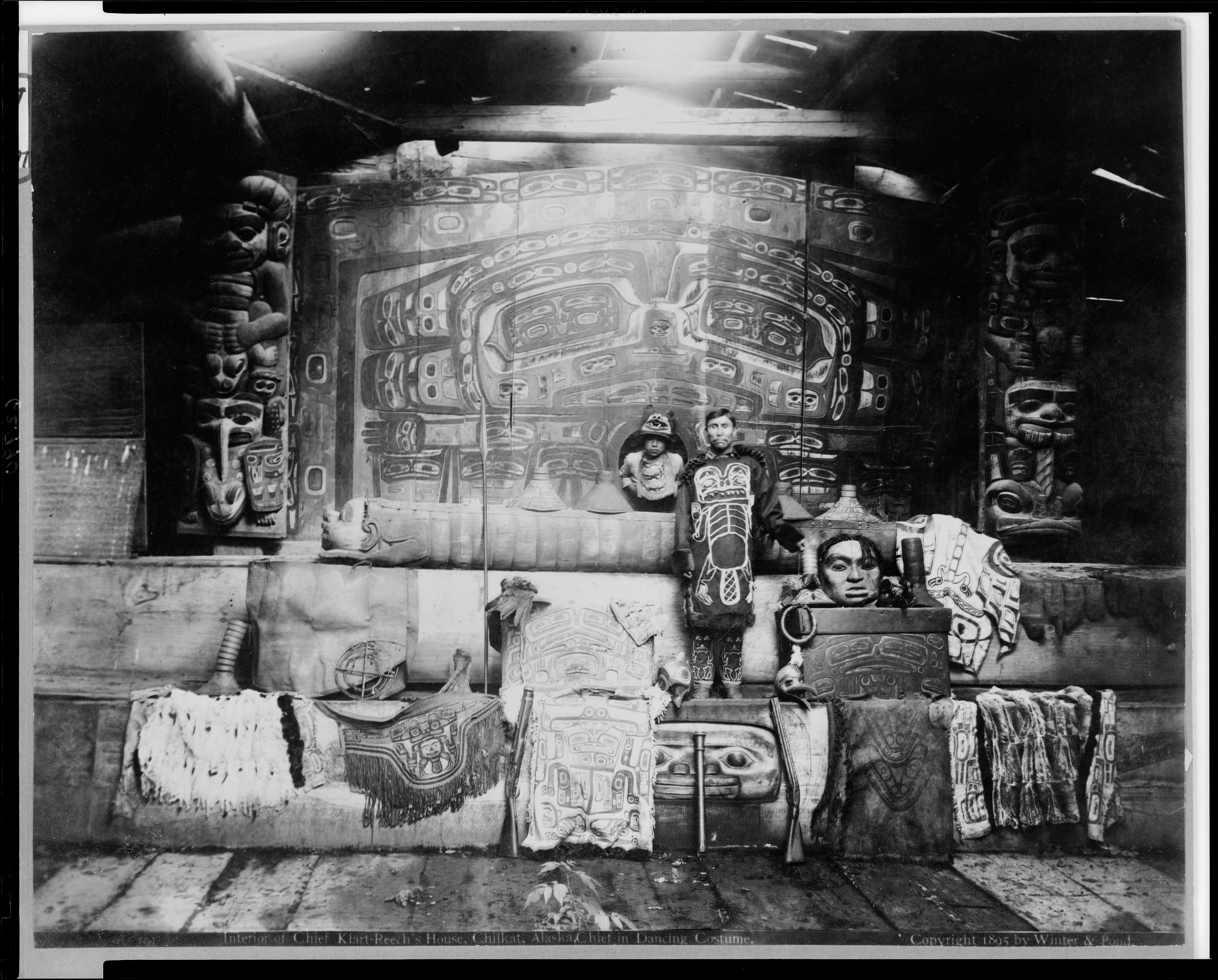 Title: Interior of Chief Klart-Reech's house. Chilkat, Alaska. Chief in dancing costume Abstract/medium: 1 photographic print.